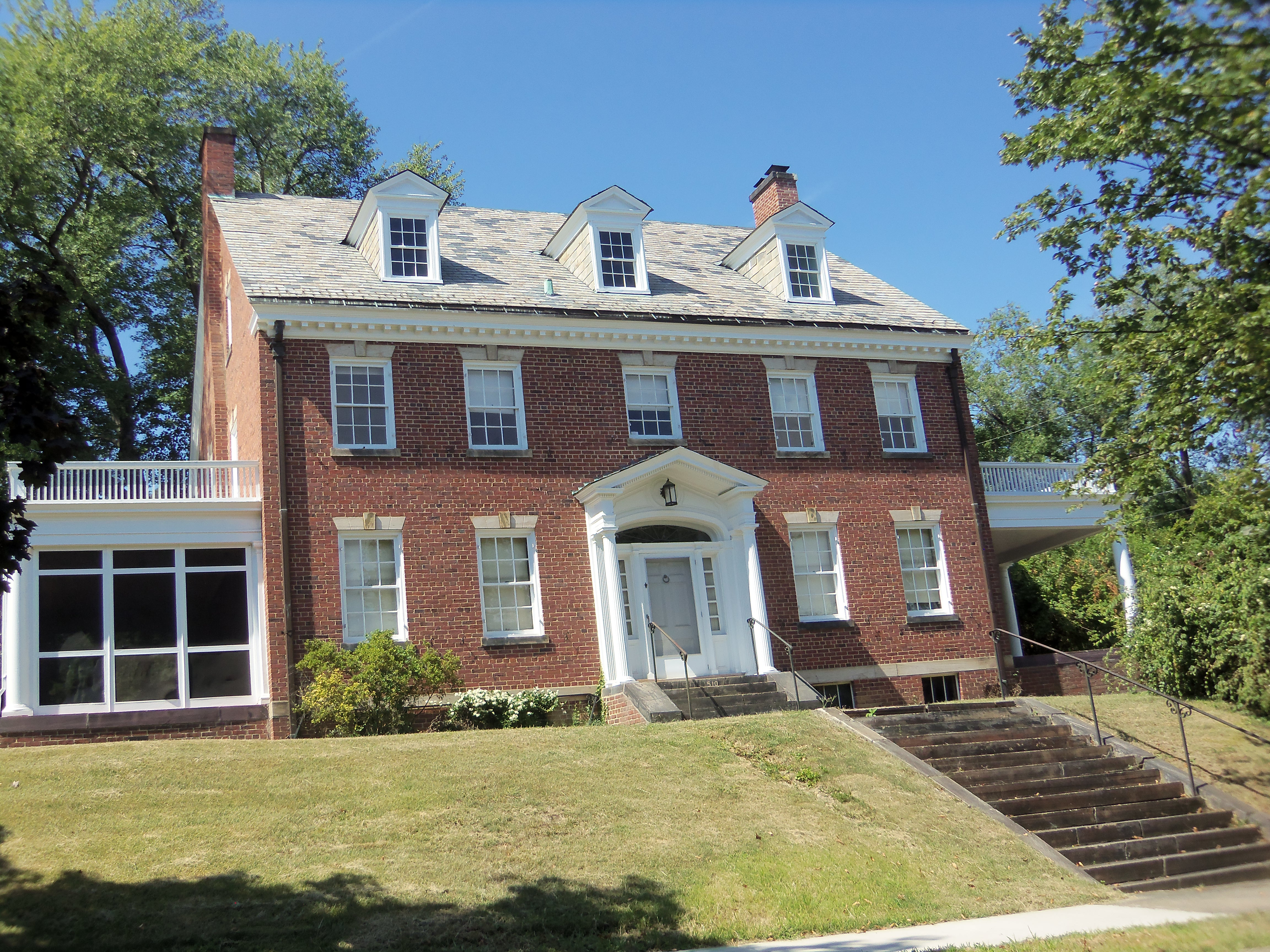 Rosemont Historic District, Roughly bounded by Commonwealth AVe., W. Walnut St., Russell Rd., Rucker Pl. and King St.